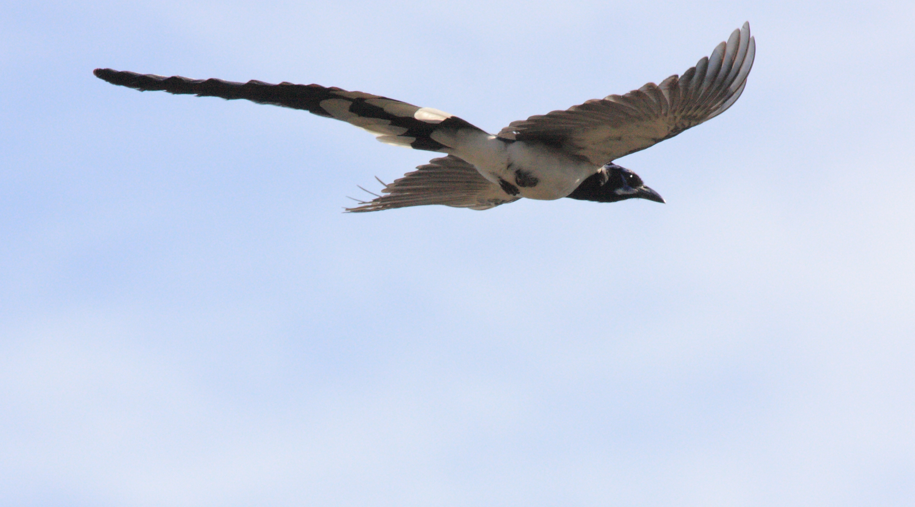 Black-throated Magpie-jay (Calocitta colliei)